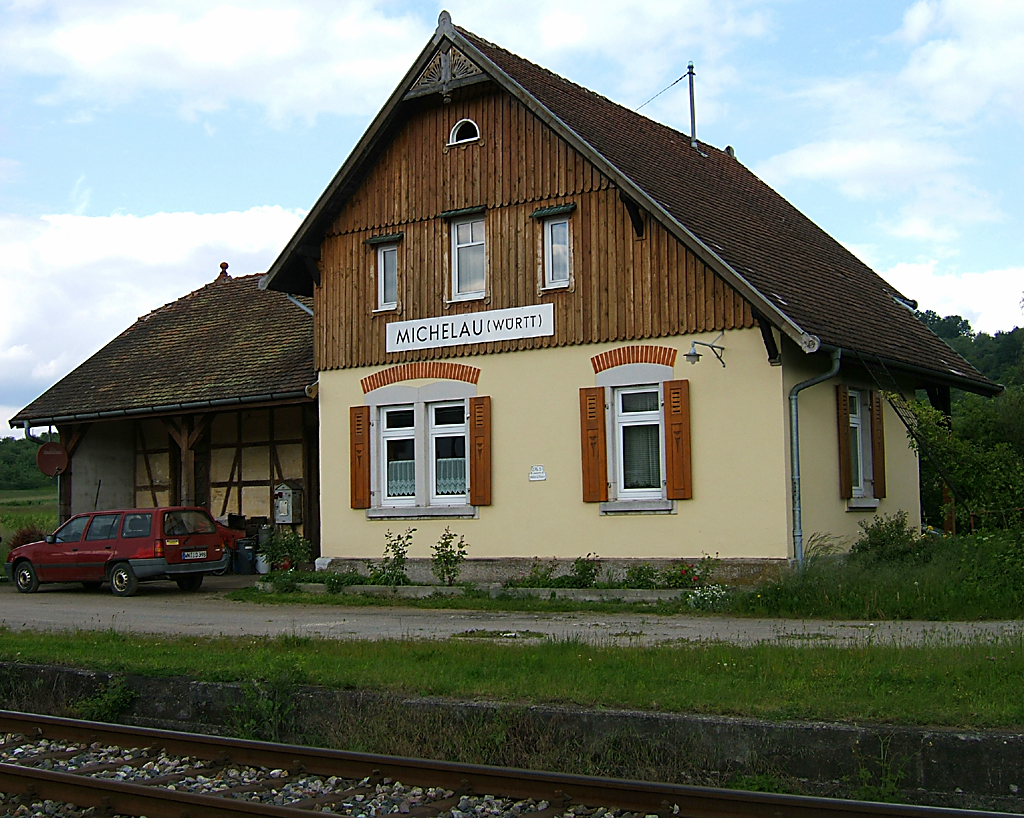 Railway station Michelau near Schorndorf, Baden-Württemberg, Germany